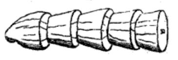 Frog battery detail showing how the conical end of one thigh is pushed inside the cavity of the next